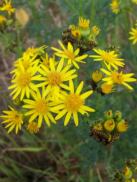 Ragwort and caterpillars, Croucheston Ragwort is the favourite food of the cinnabar moth, whose black-and-white/yellow striped caterpillars often leave nothing but the stem uneaten.